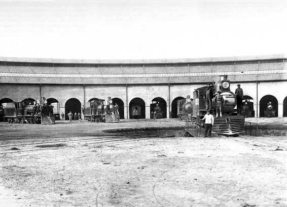 Locomotives hangar in Santa Fe.